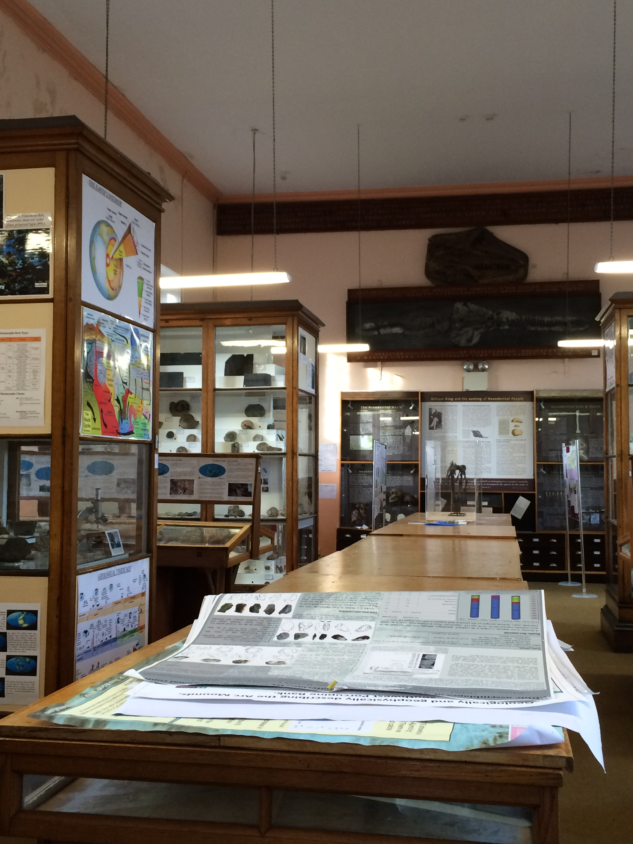 View inside the James Mitchel Museum at NUI Galway